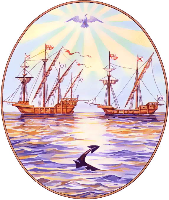 Coat of arms of Buenos Aires, 1649.